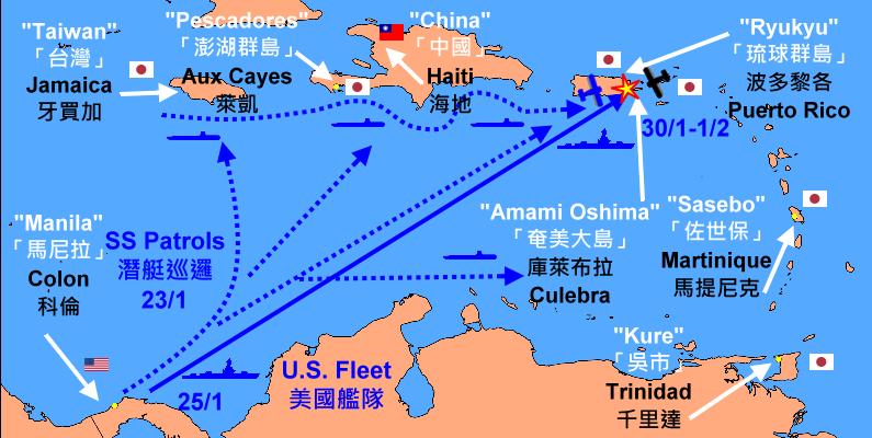 Fleet Problem IV chart map, 2/1/1924 - 1/2/1924. Note also the geographic transposition implemented by the navy.